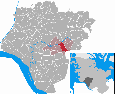 This map shows the area of the municipality Westermoor in the Kreis (district) Steinburg, Schleswig-Holstein, Germany.